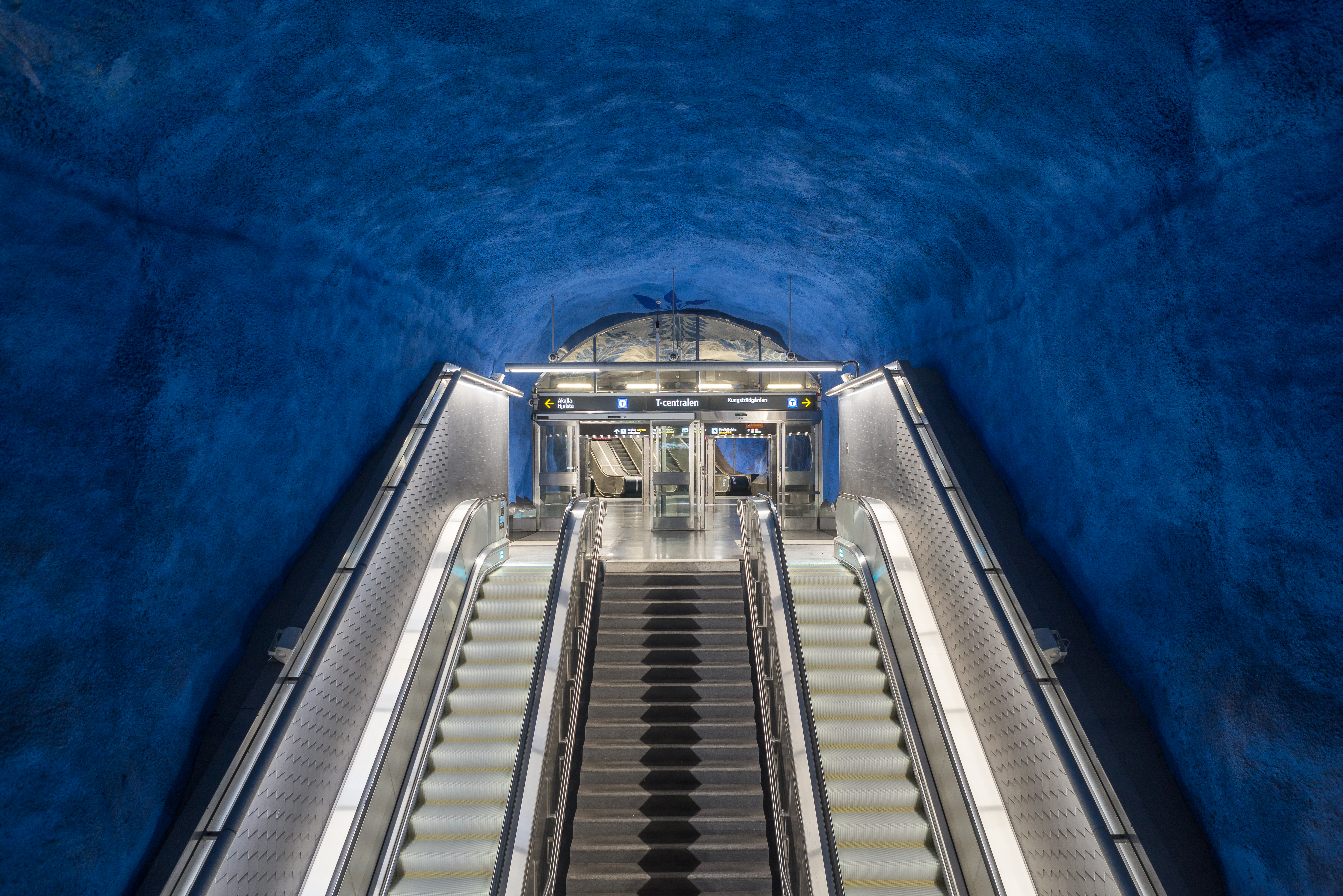 Connection between T-centralen metro station and the new Stockholm City commuter station. View from T-centralen (blue line).